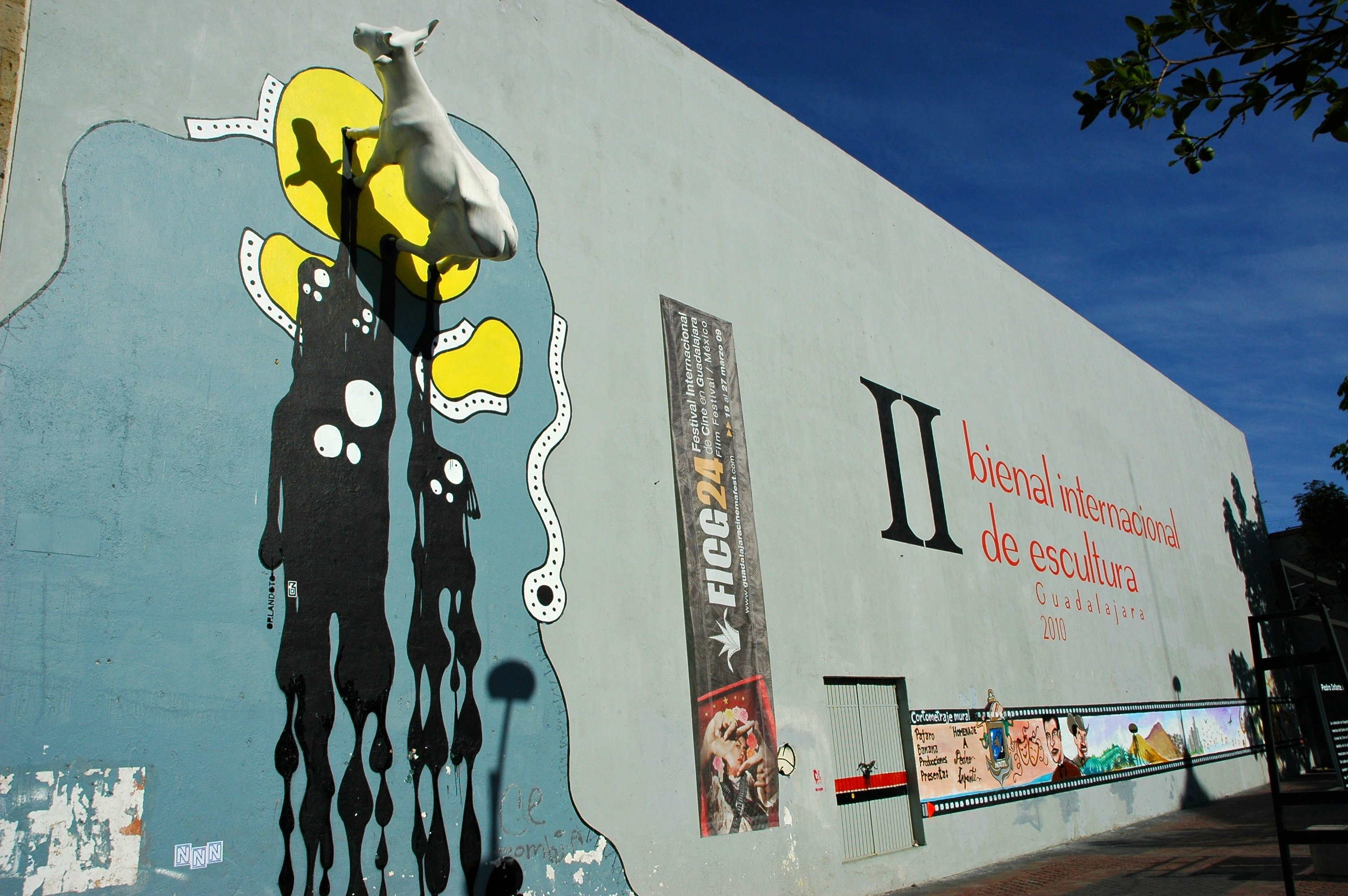 Guadalajara's cow parade